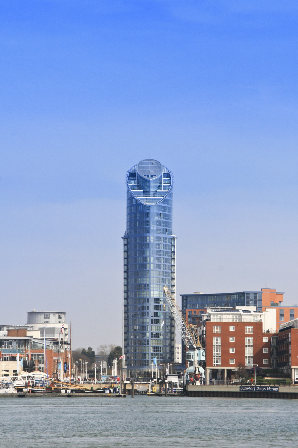 No.1 Gunwharf Quays, Portsmouth, UK, colloquially known as The Lipstick or Gunwharf Tower. Located here. Image uploaded by me User:George.Hutchinson from a photograph taken by and supplied by Brian Burnell. Wikipedia editors are reminded that the copyright remains with the photographer, and that the terms of the Creative Commons licence; that allow editors to reuse this image apply to Wikipedia editors also, as they do to other re-users of this image. Breaches of the licence terms are not only unlawful, but are also antisocial, in that breaches discourage photographers from making their images freely available to everyone without payment. Wikipedia re-users are also reminded of the license terms that derivatives of this image should not imply that the adaptation is endorsed or approved by the author or copyright holder. Neither should derivatives be presented as the creation of the author or copyright holder, while clearly stating that the adaptation is a derivative of the original. Attribution online should be in this format Brian Burnell. On the printed page, a simpler form is acceptable - example: "Image: Brian Burnell". Non-Wikipedia users are requested to advise Brian Burnell of its use other than on Wikipedia.